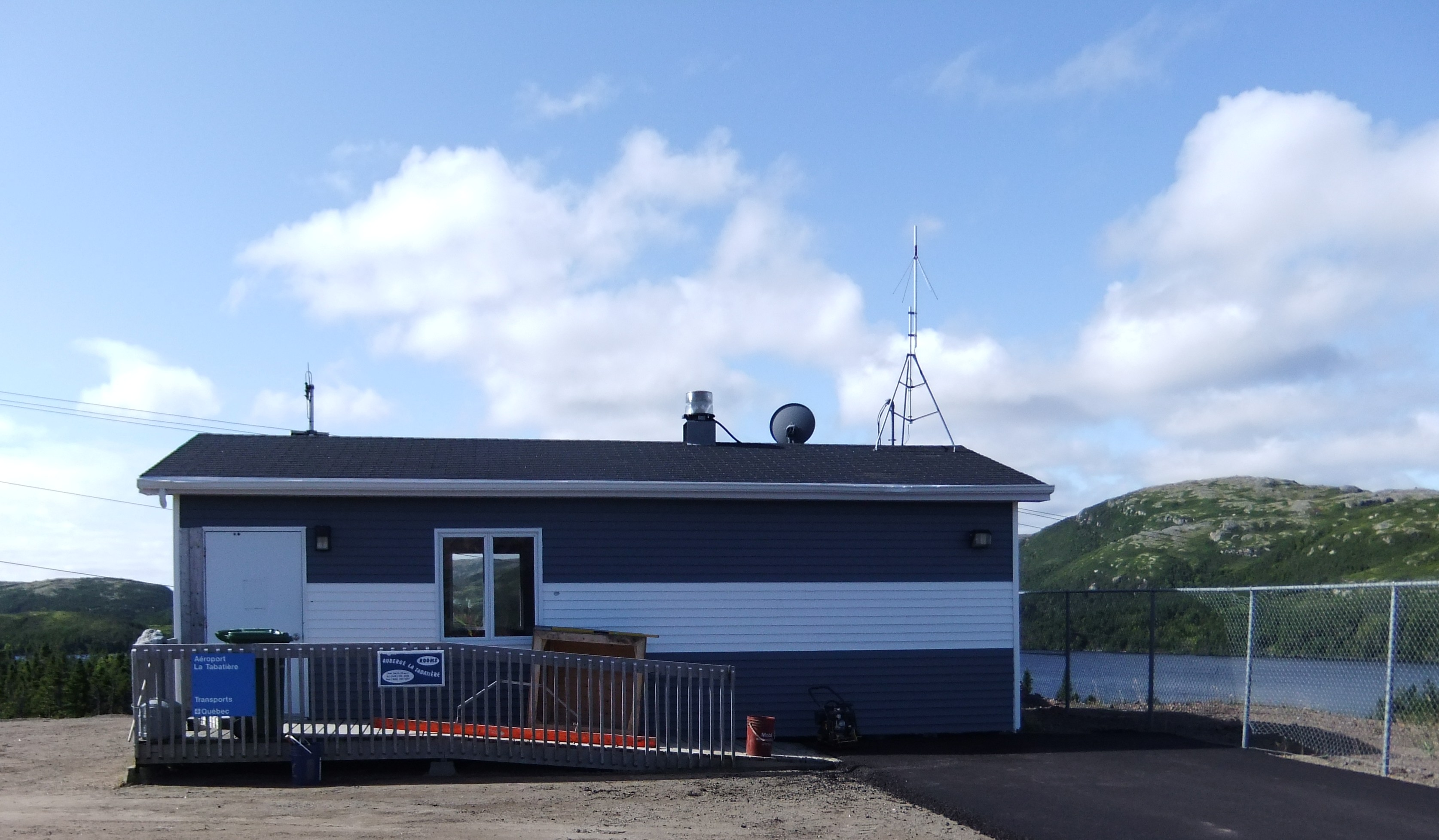 La Tabatiere airport (ZLT) during paving of the parking. The landing strip is on the right of the building (not shown).